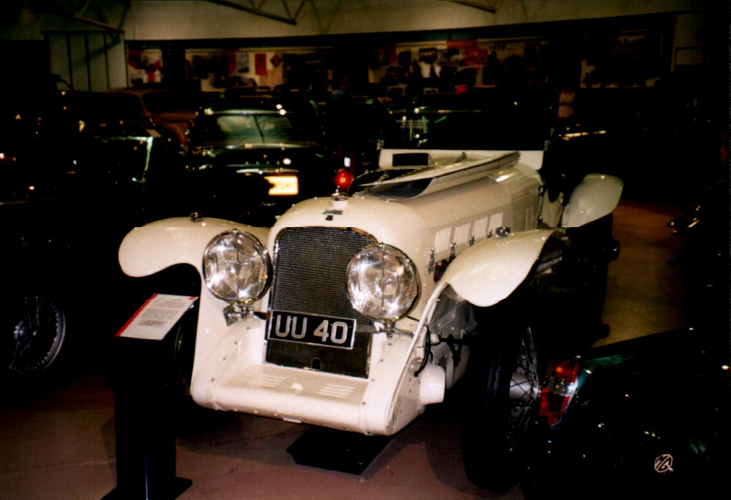 Leyland Eight Thomas Special 1927